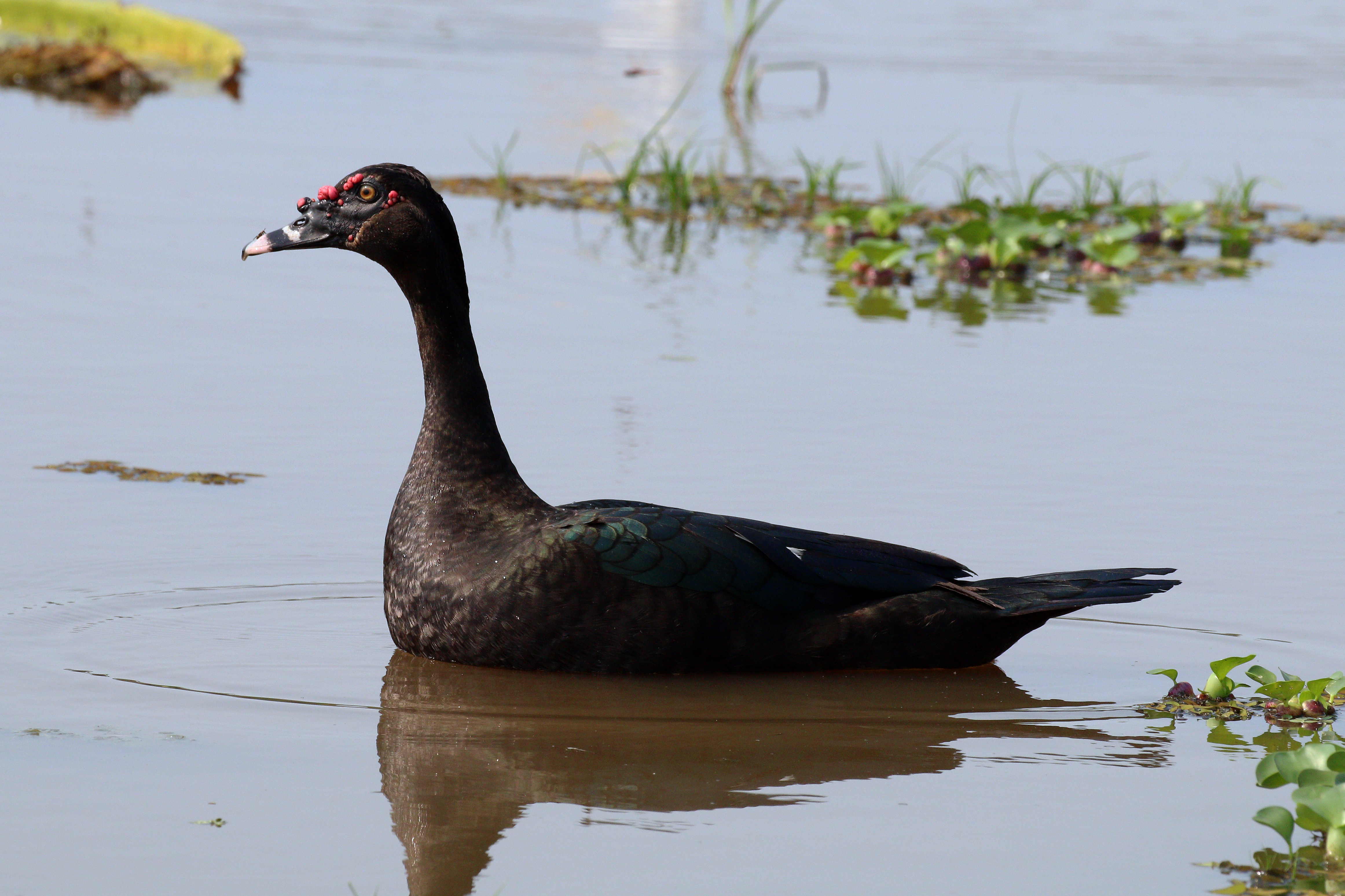 Muskovy duck (Cairina moschata), the Pantanal, Brazil